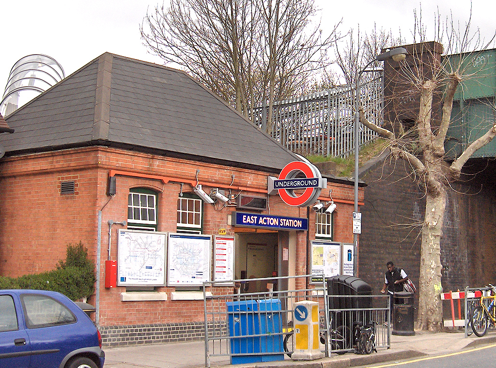 East Acton Underground Station, London